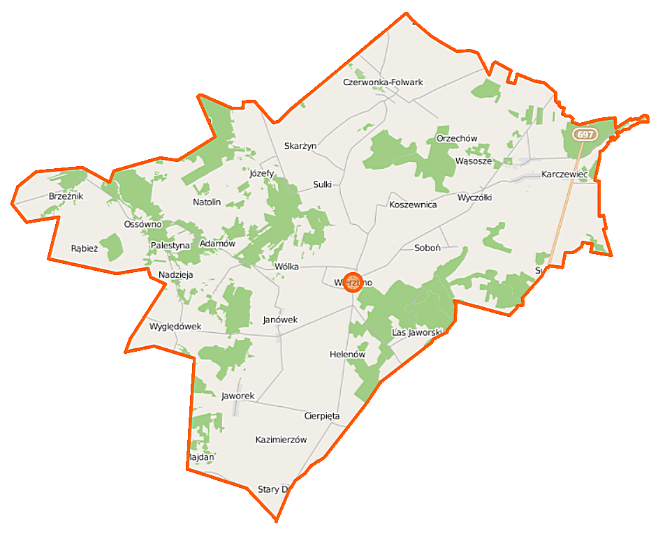 Map of Gmina Wierzbno, Poland This map of Wierzbno (gmina) was created from OpenStreetMap project data, collected by the community. This map may be incomplete, and may contain errors. Don't rely solely on it for navigation. Border coordinates52.376021.7193←↕→21.980652.2469